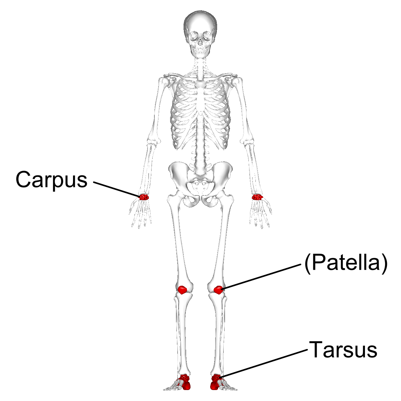 Short bones. Shown in red.